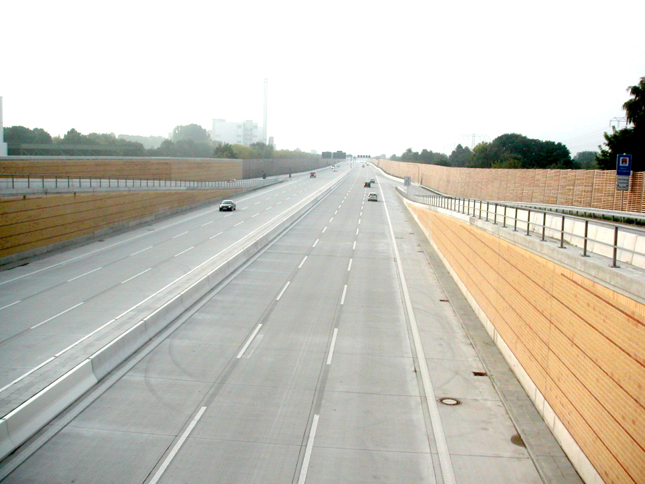 View on the motor way A 113 in Berlin, opened in 2005, as seen from Hermann Gladenbeck Bridge at exit Stubenrauchstraße.